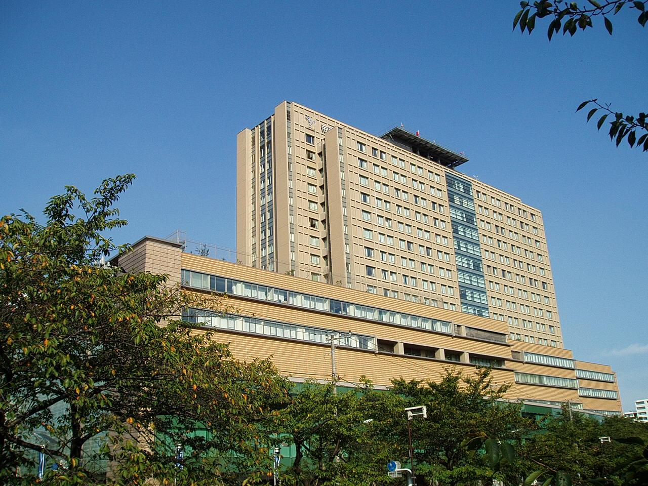 Teikyo University Hospital located in Itabashi-ku, Tokyo. The emblem has been masked by the uploader.